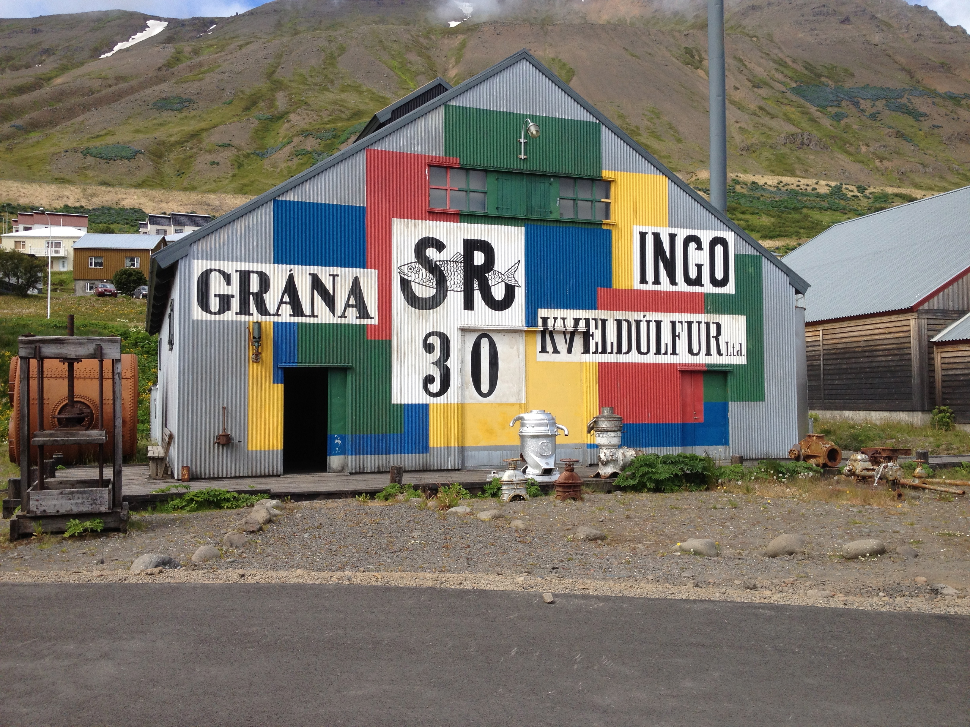 "Grána:The factory" of the Herring Era Museum at Siglufjörður (Iceland)